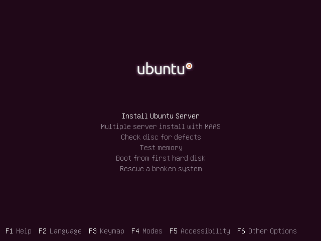 Installation Screen of the Ubuntu 12.04 Server edition